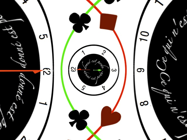 This picture represents the result of a conformal transformation of the complex plane tiled by a clock. Here: the square function z ↦ z 2 {\displaystyle z\mapsto z^{2 restricted to positive real part, hence injective.